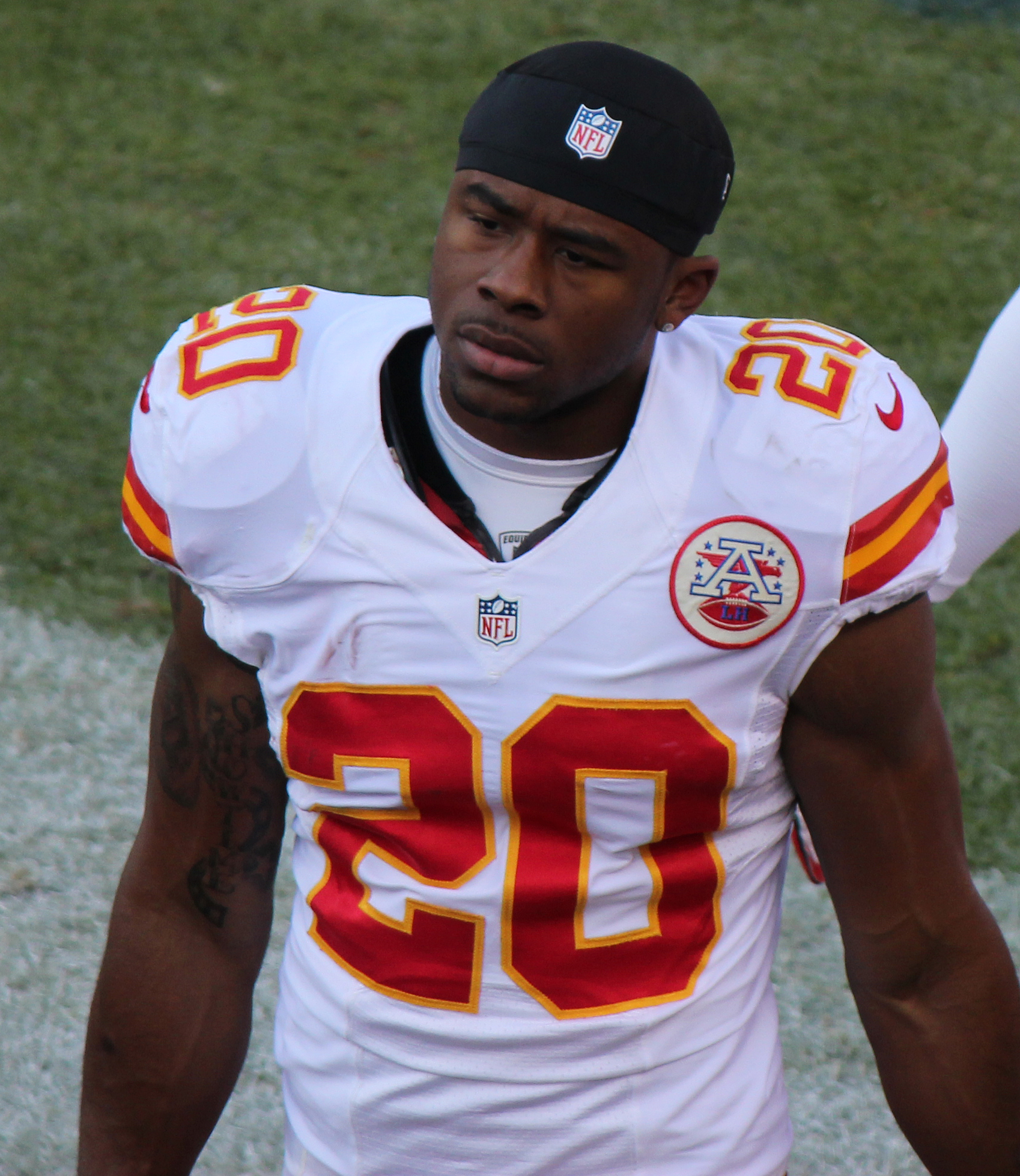 Shaun Draughn, a player on the National Football League.